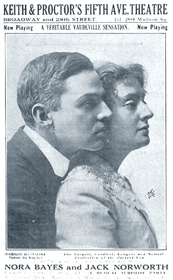 Photo of Jack Norworth and Nora Bayes. Photo probably dates to the era of their partnership, c. 1908 - 1913.